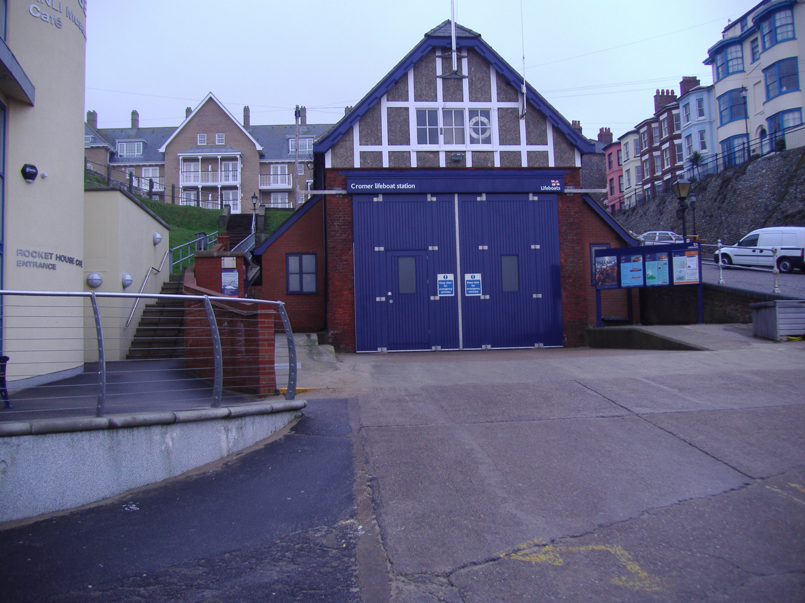 The old lifeboat house at Cromer now houses the ILB, Cromer, Norfolk, UK.